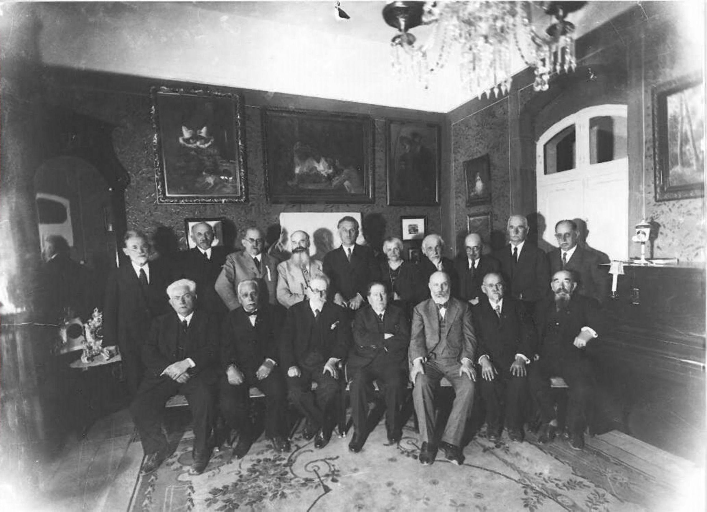 Nahum Sokolow, with the participants of the first World Zionist Congress at Heschel Farbstein's house in Jerusalem. Present: Joseph Klausner, Zvi Hirsch Belkowsky, Leib Yaffe, Menahem Ussishkin, Yitzhak Leib Goldberg